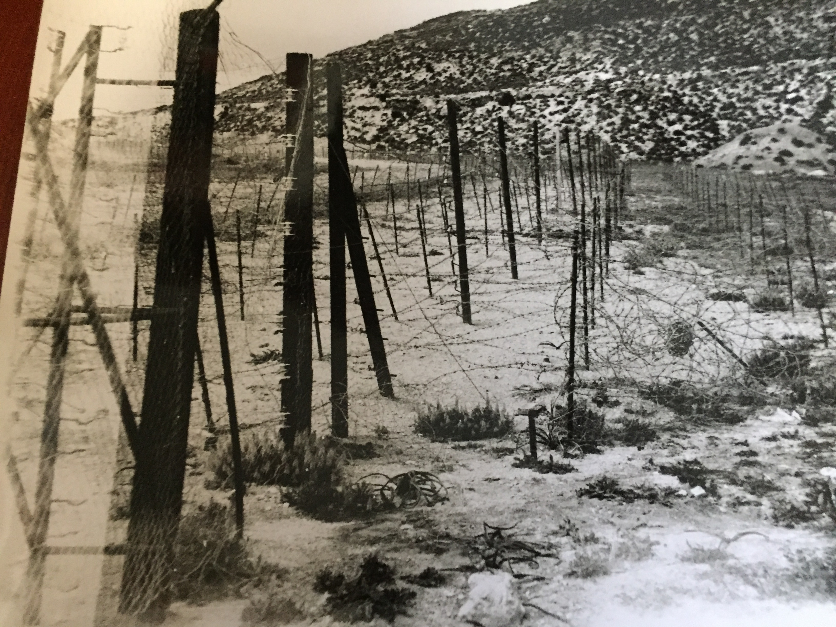 Photo taken during the crossing of the Morice Ligne between the Algerian and Tunisian border by NLA soldiers.circa 1958.